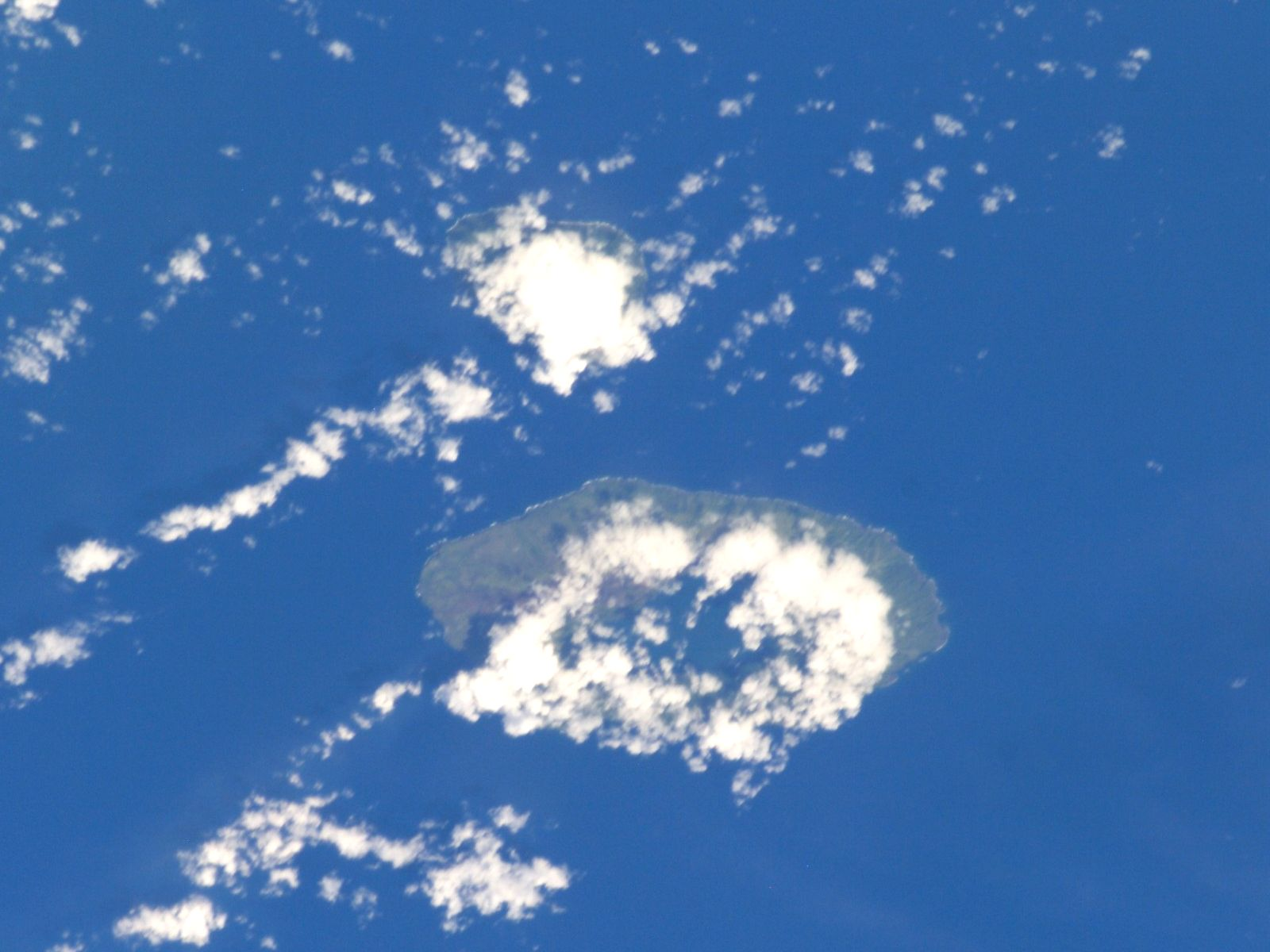 Tonga's islands Tofua (left-centr) and Kao (lower-center).